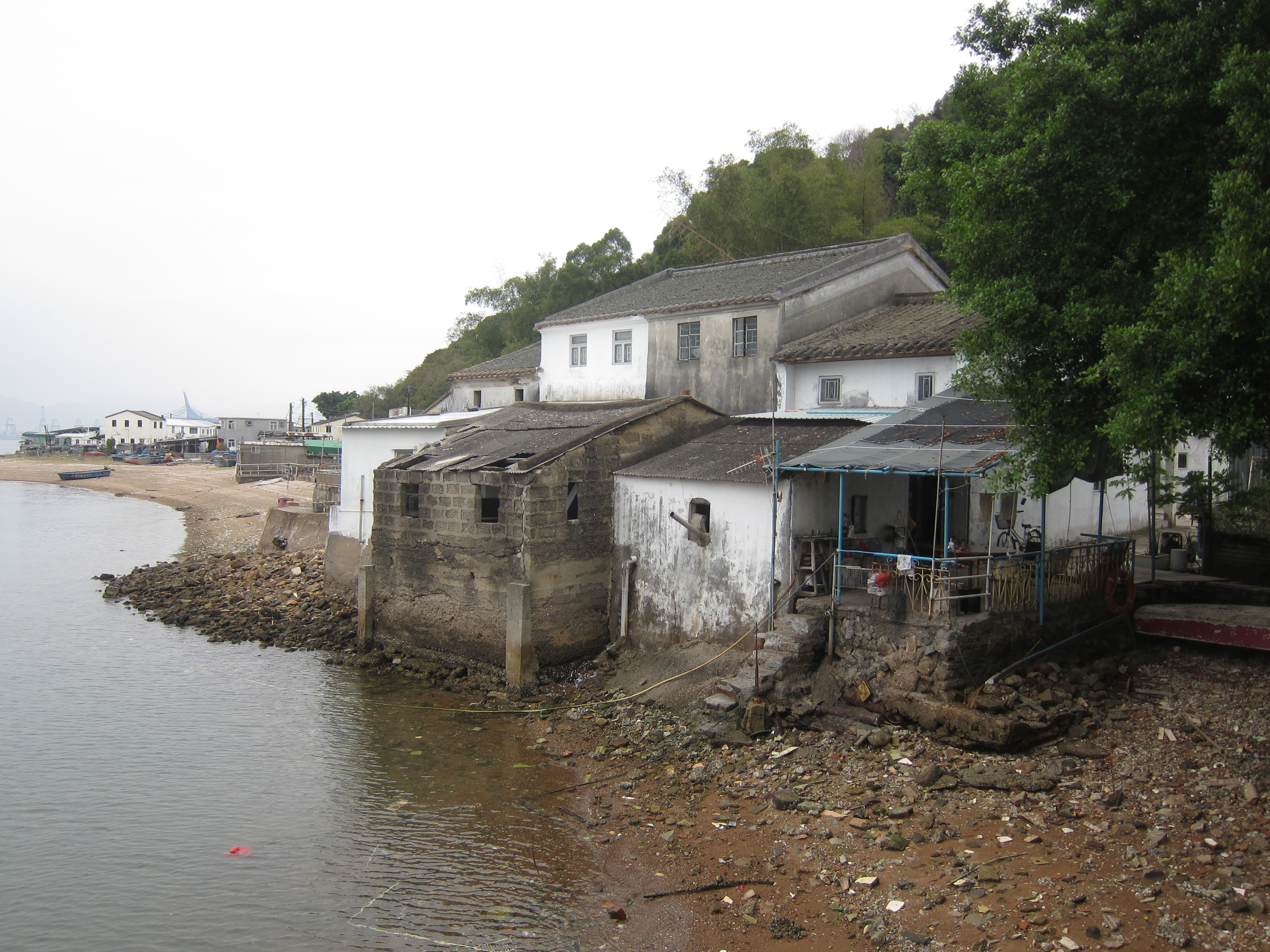 Kat O Coastal Residences